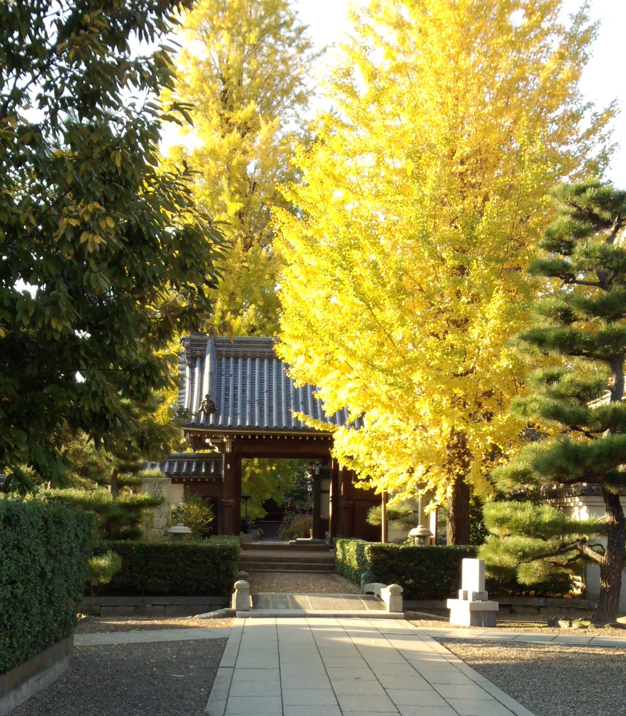 Shoumyouji in Kakogawa City,Hyogo Pref.